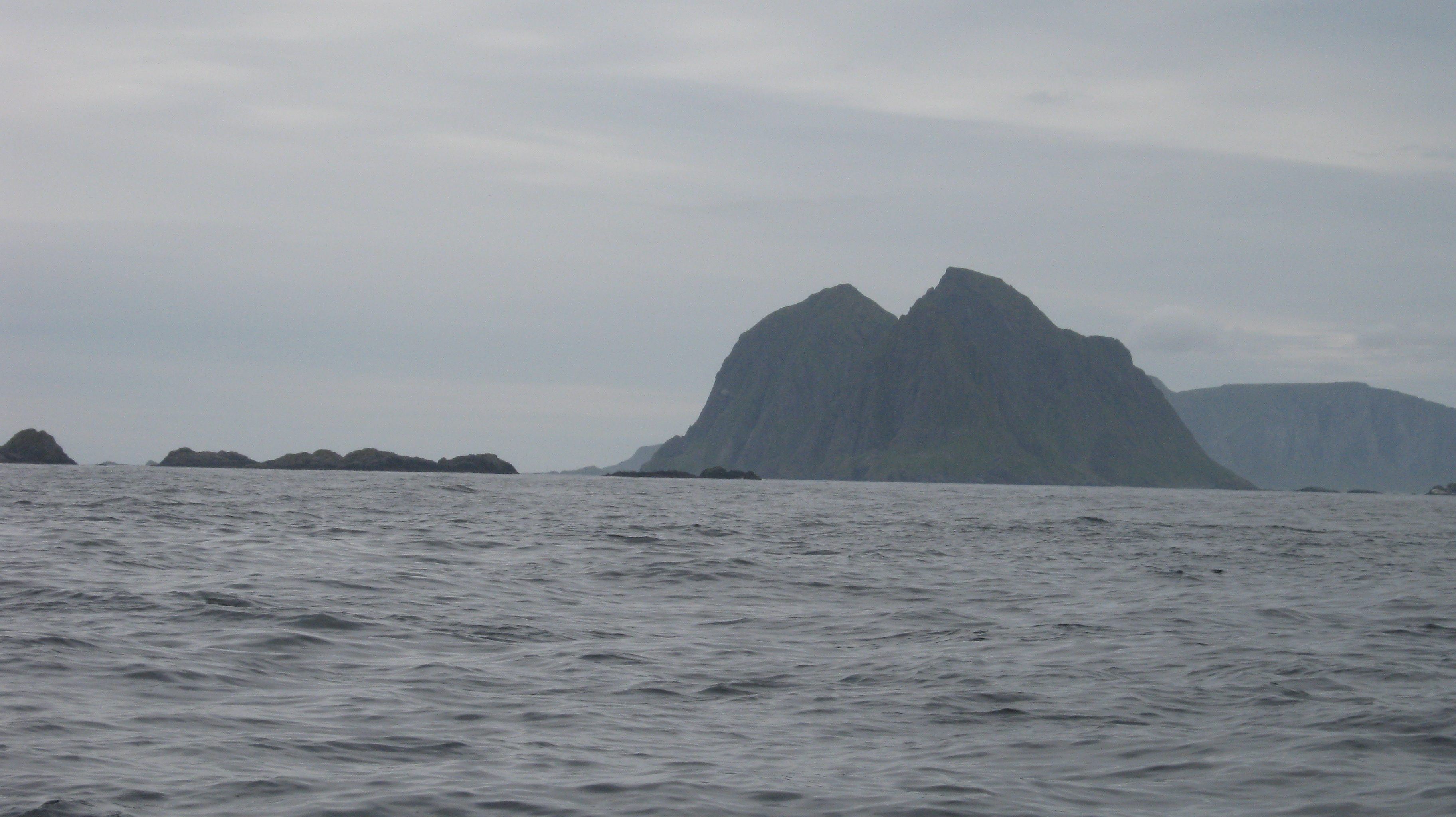 The island Mosken, seen from the north. The island Værøy in the background.